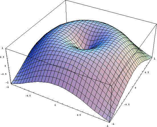 graph of function of 2 variables z = sin ⁡ ( π × x 2 + y 2 ) {\displaystyle z=\sin(\pi \times {\sqrt {x^{2}+y^{2 })} 中文（中国大陆）: 二元函数图像 z = sin ⁡ ( π × x 2 + y 2 ) {\displaystyle z=\sin(\pi \times {\sqrt {x^{2}+y^{2 })}